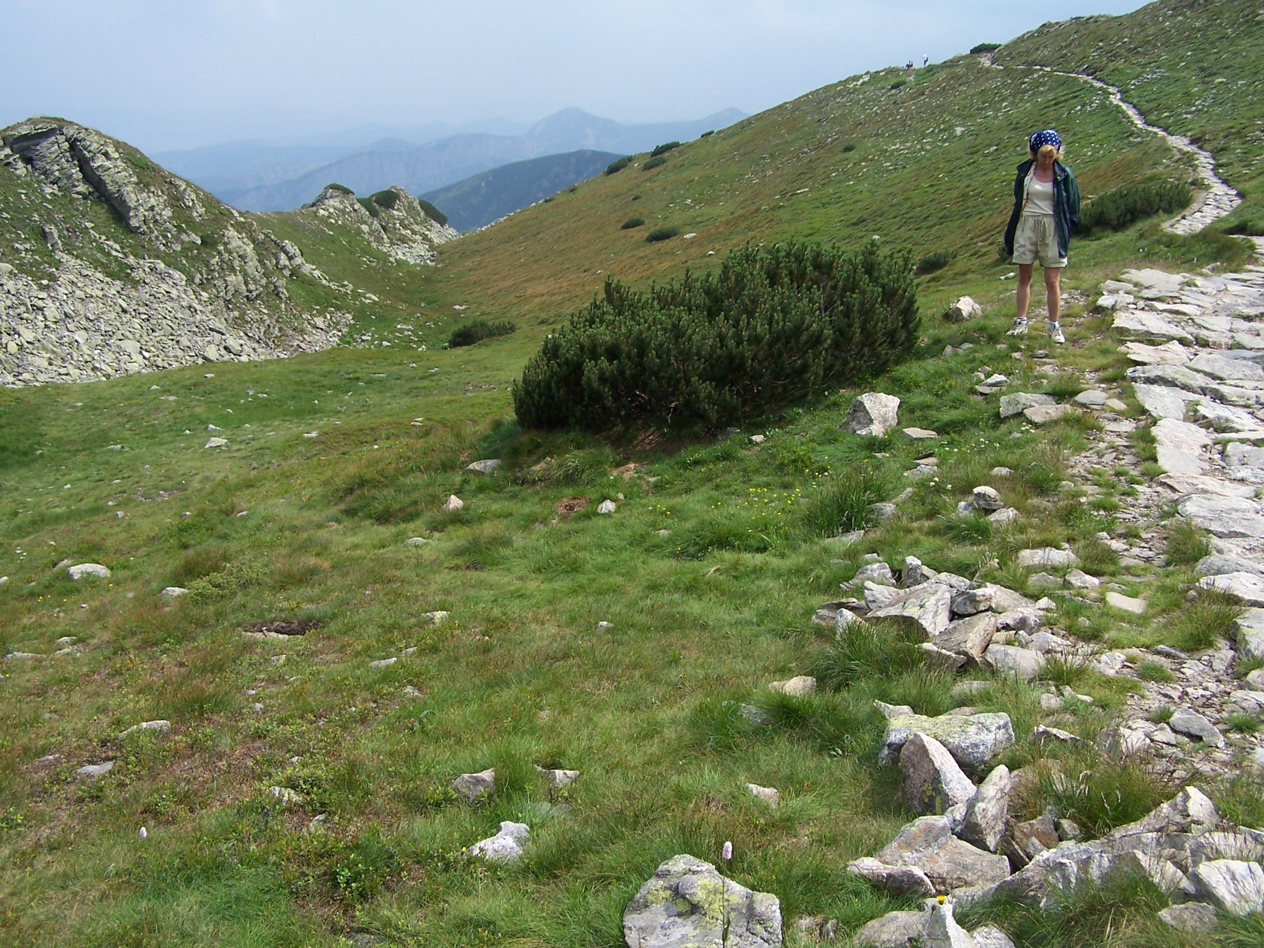 Suchy Wierch Kondracki (Tatra Mountains)